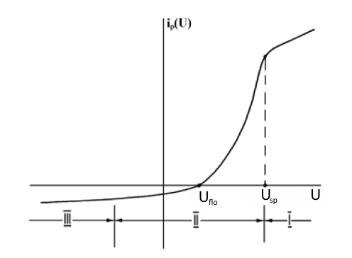 Langmuir probe VAC